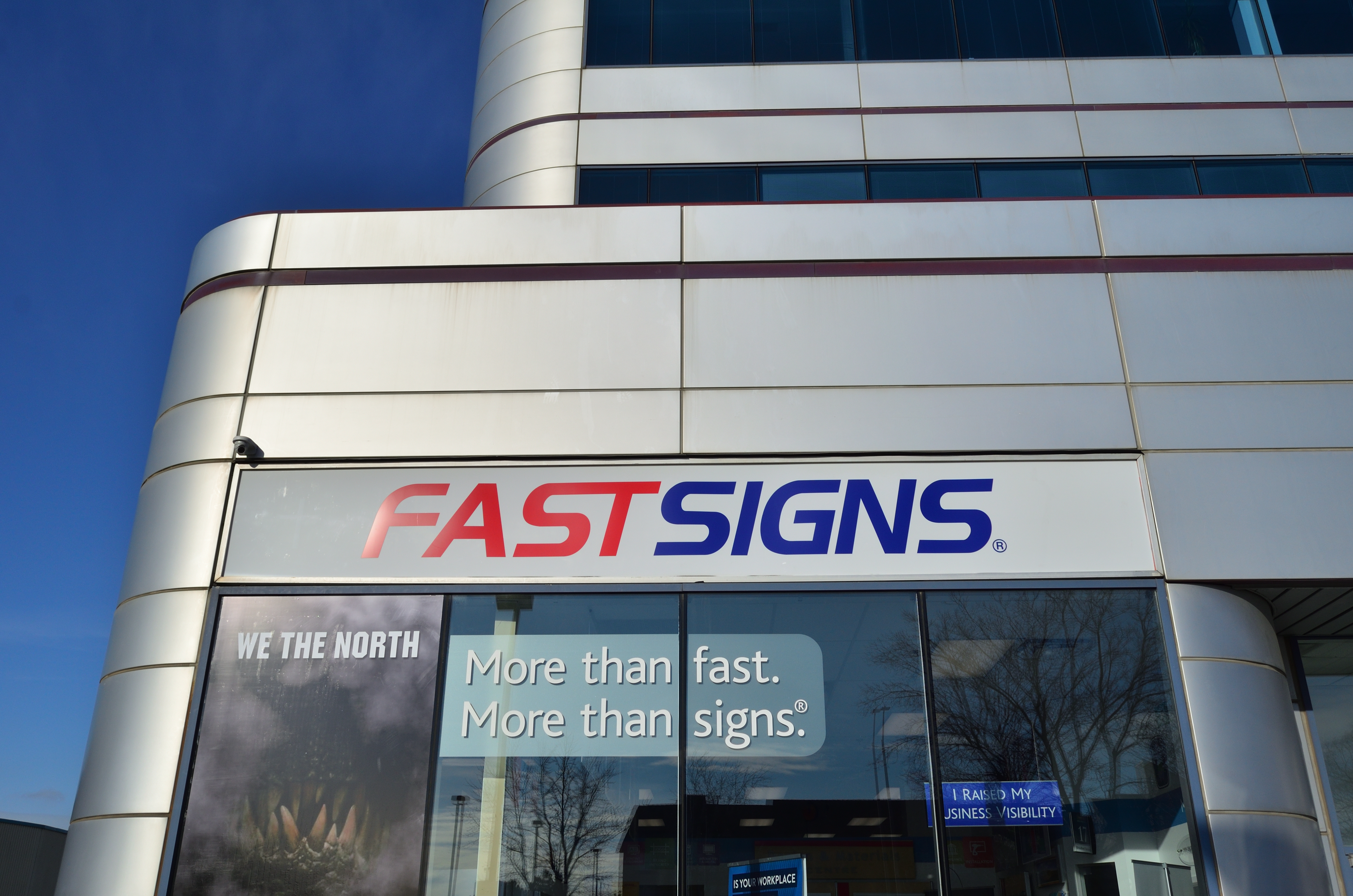 Fastsigns in Markham - Address: 8920 Woodbine Ave Suite 100, Markham, ON L3R 9W9